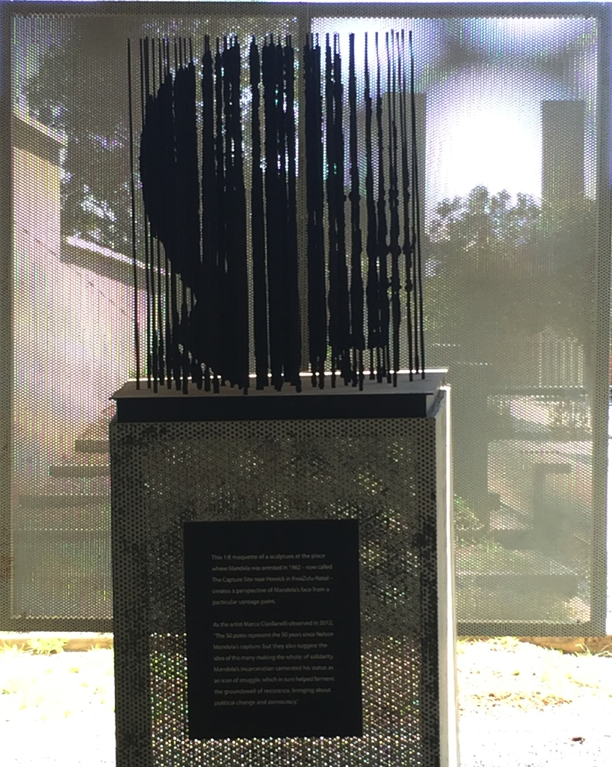 Replica of the artwork by Marco Cianfanelli. Viewed from the exit of the Apartheid Museum, Johannesburg exhibit on Nelson Mandela. Original at Nelson Mandela capture site, Howick, KZN.